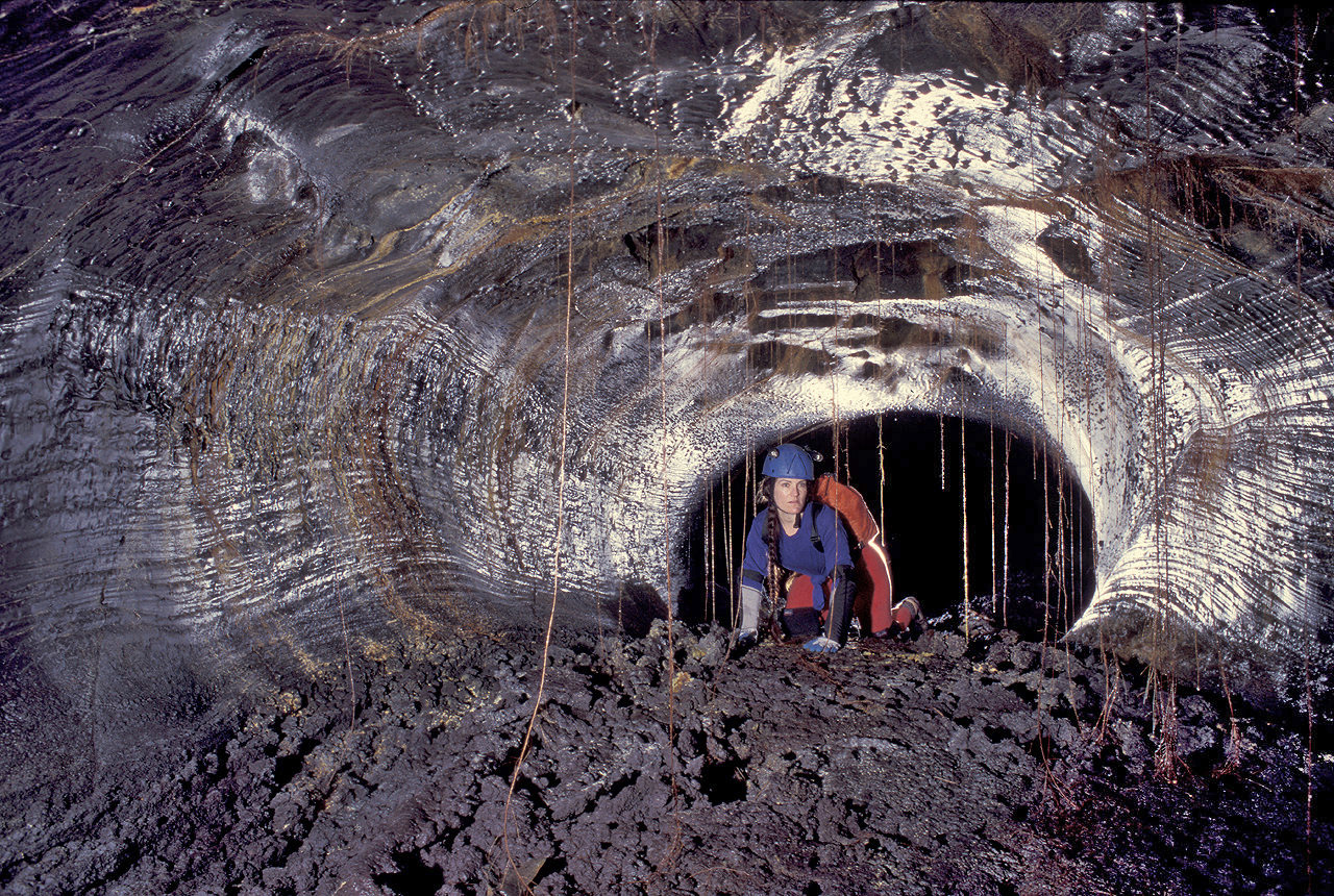 Photo by Dave Bunnell A lava tube on the island of Hawaii, taken just above a lava falls. The floor is cauliflower pahoehoe, a rougher form of pahoehoe. Note the tree roots coming in from the ceiling. Lava tubes tend to be fairly close to the surface.